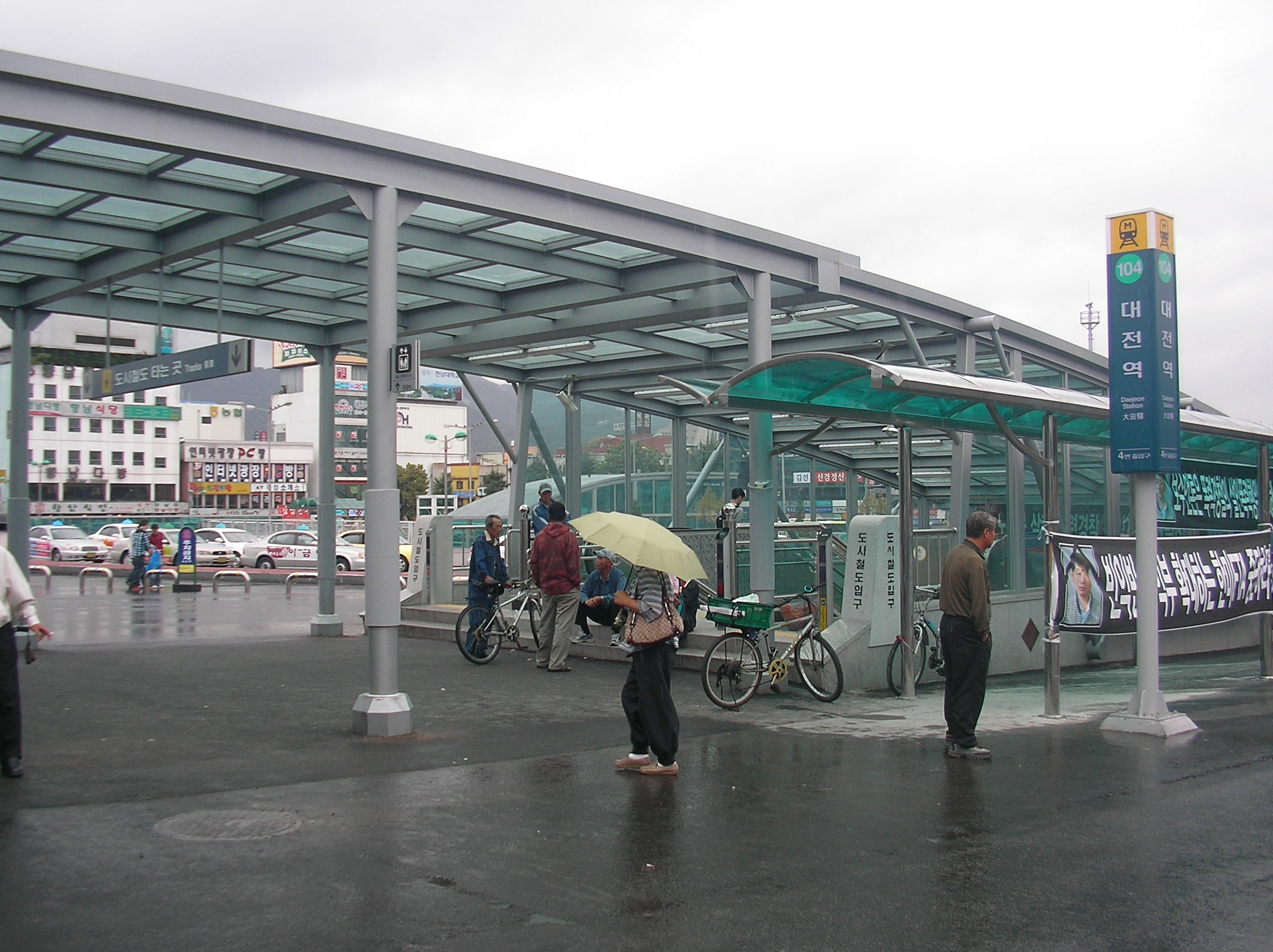 Daejeon Station (Daejeon Subway Line 1)